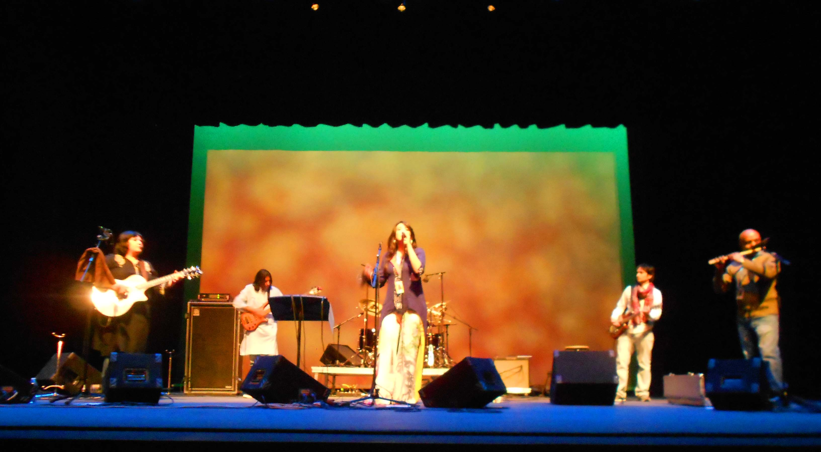 Zeb and Haniya and ỊGlobalquerque 2012!